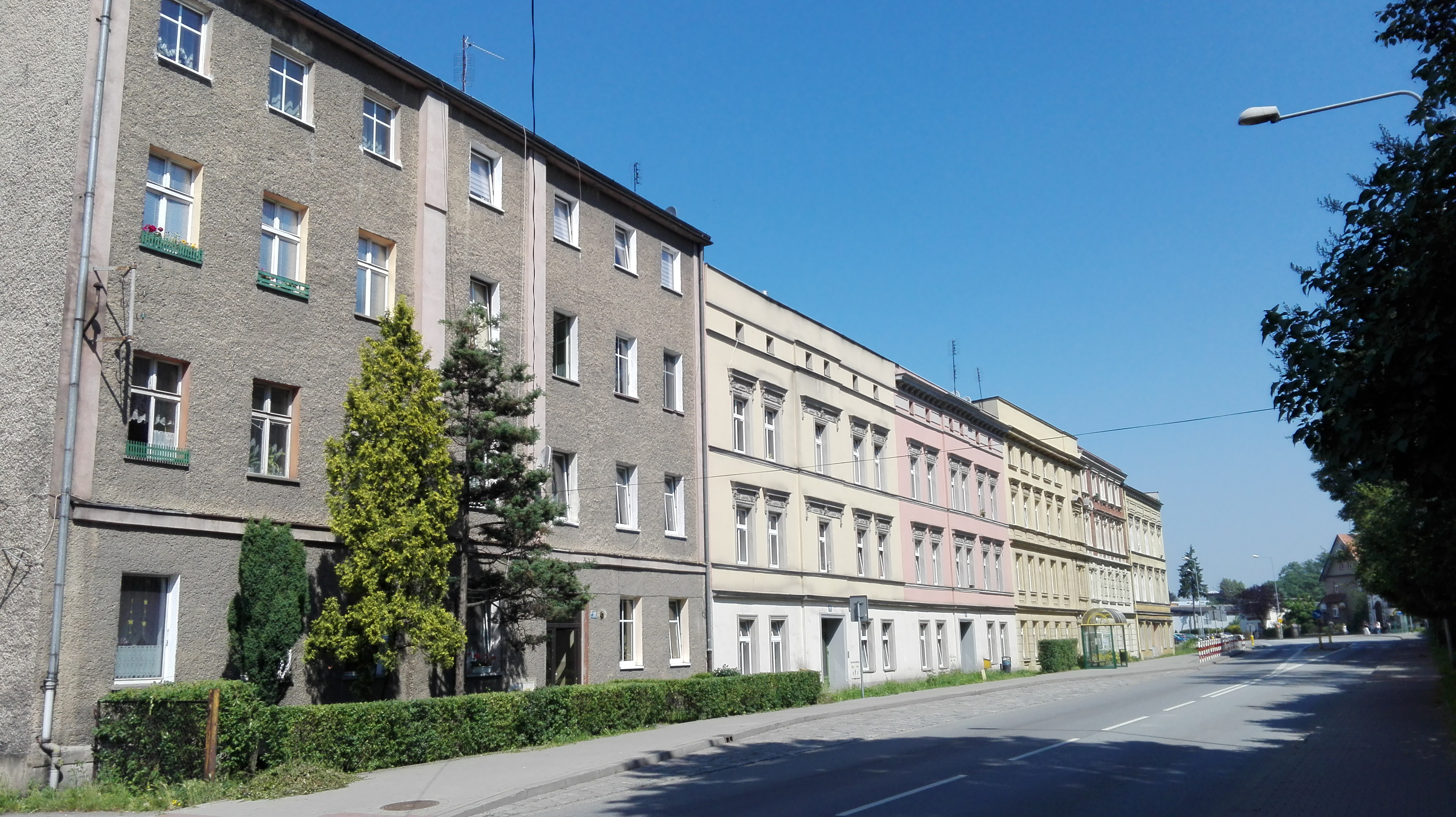 12-22 Wiejska Street in Prudnik